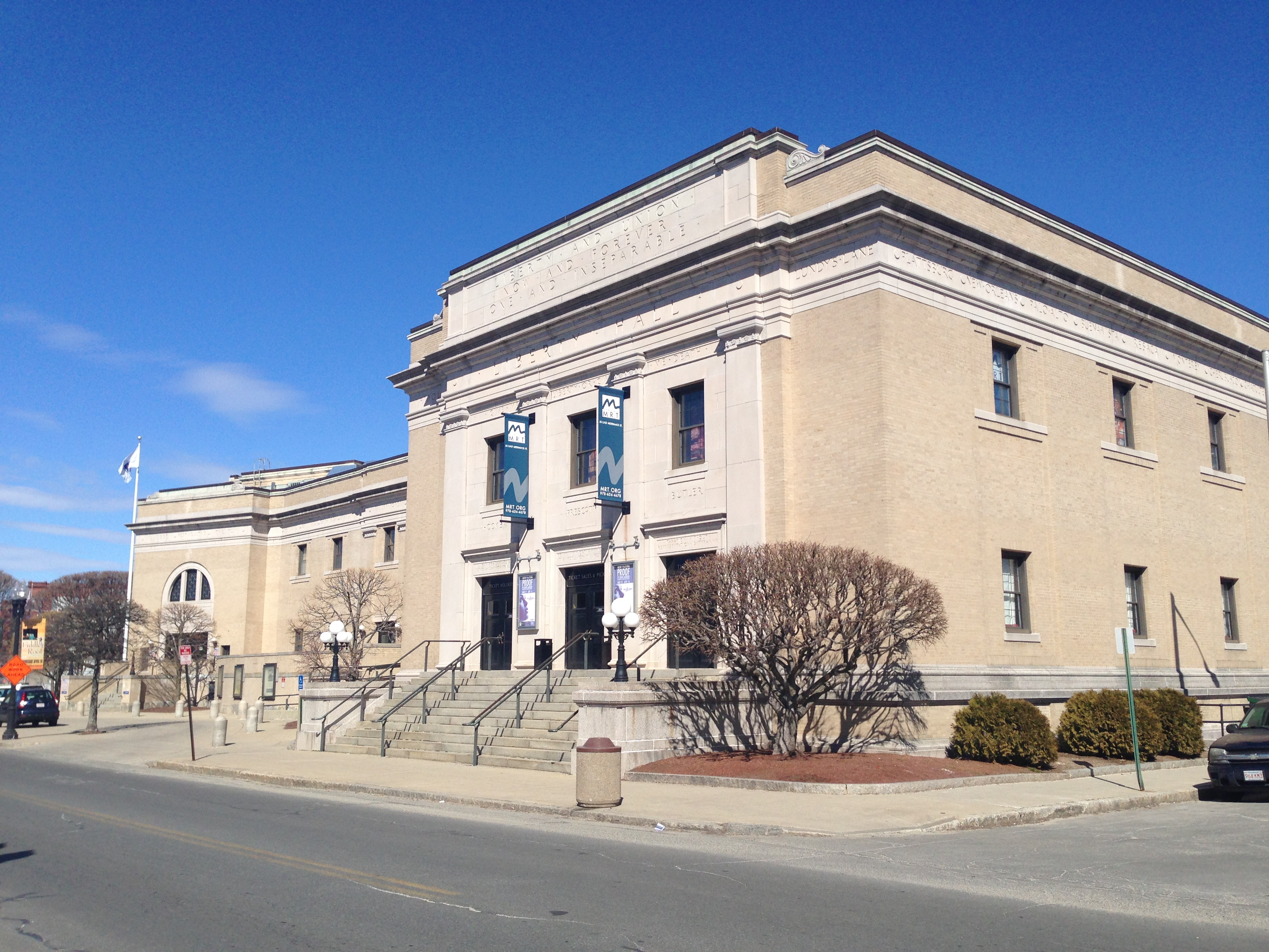 Outside of Liberty Hall, MRT's home adjacent to the Lowell Memorial Auditorium (adjoined at left). The building dates back to 1922.